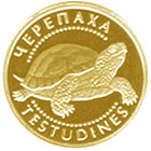 Coin of Ukraine